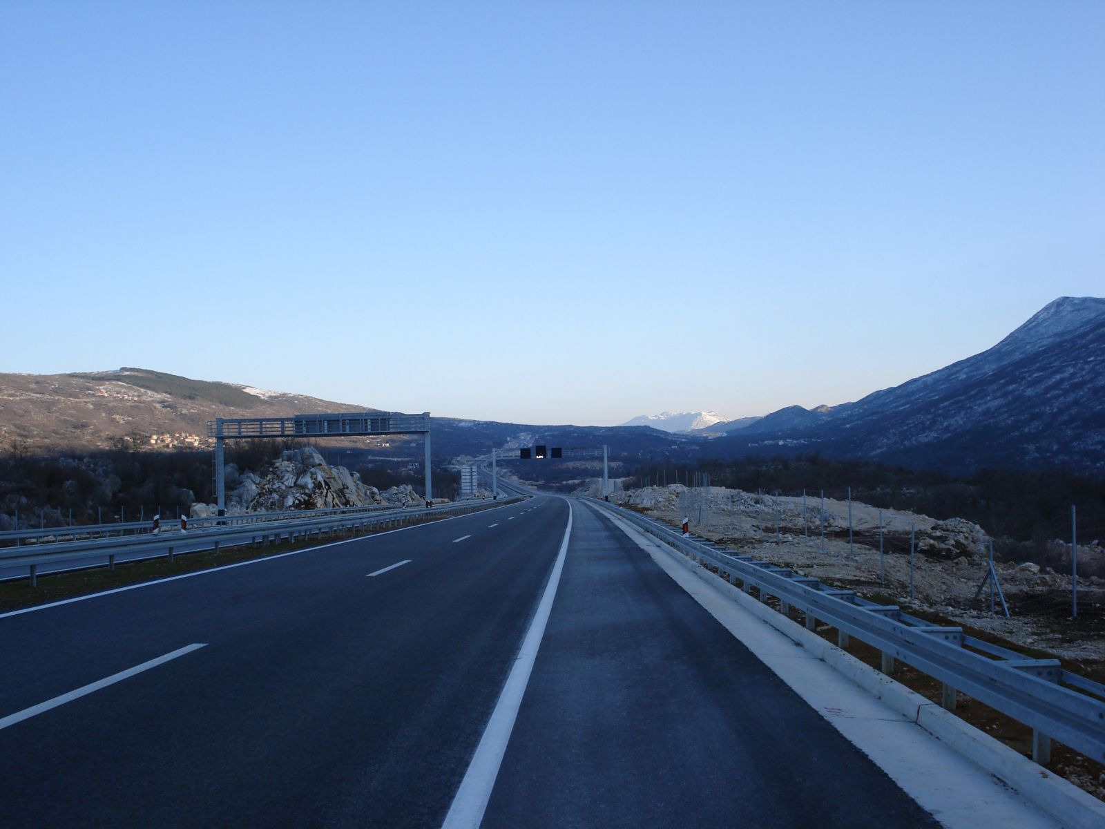 Croatian A1 Highway, the section from Šestanovac to Ravča.